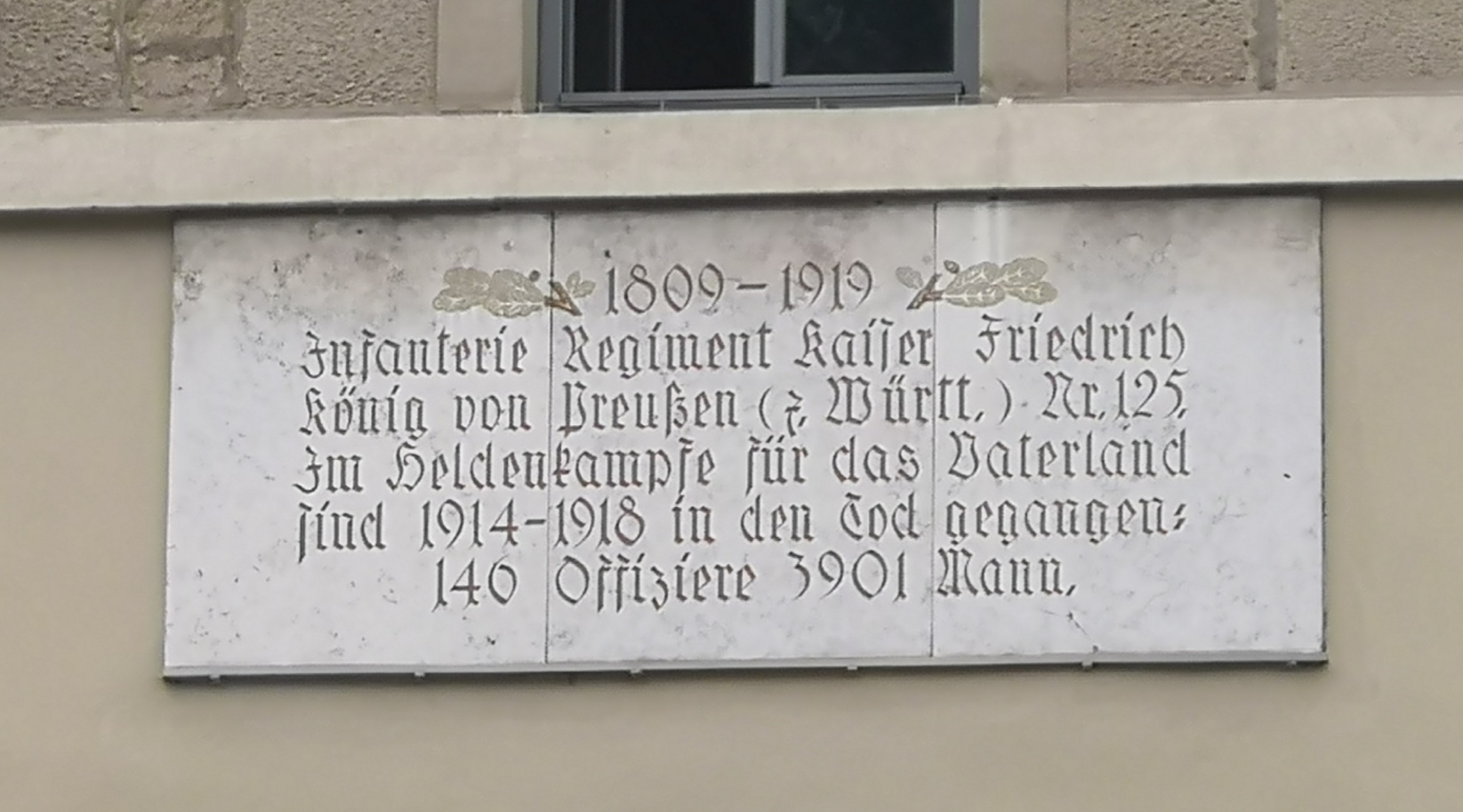 memorial plaque at the Rotebühlbau